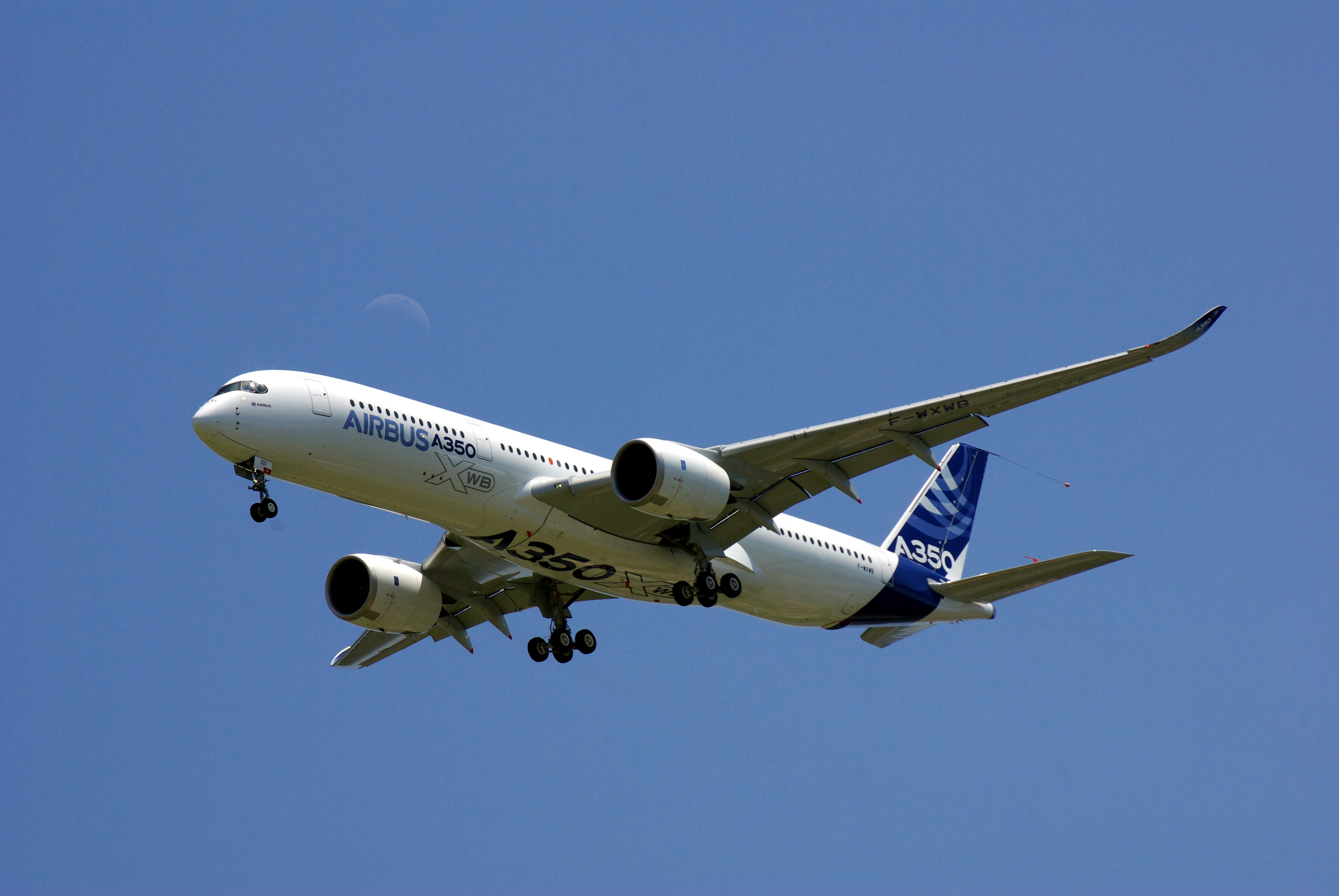 Low pass of the Airbus A350-900XWB before landing of her maiden flight.